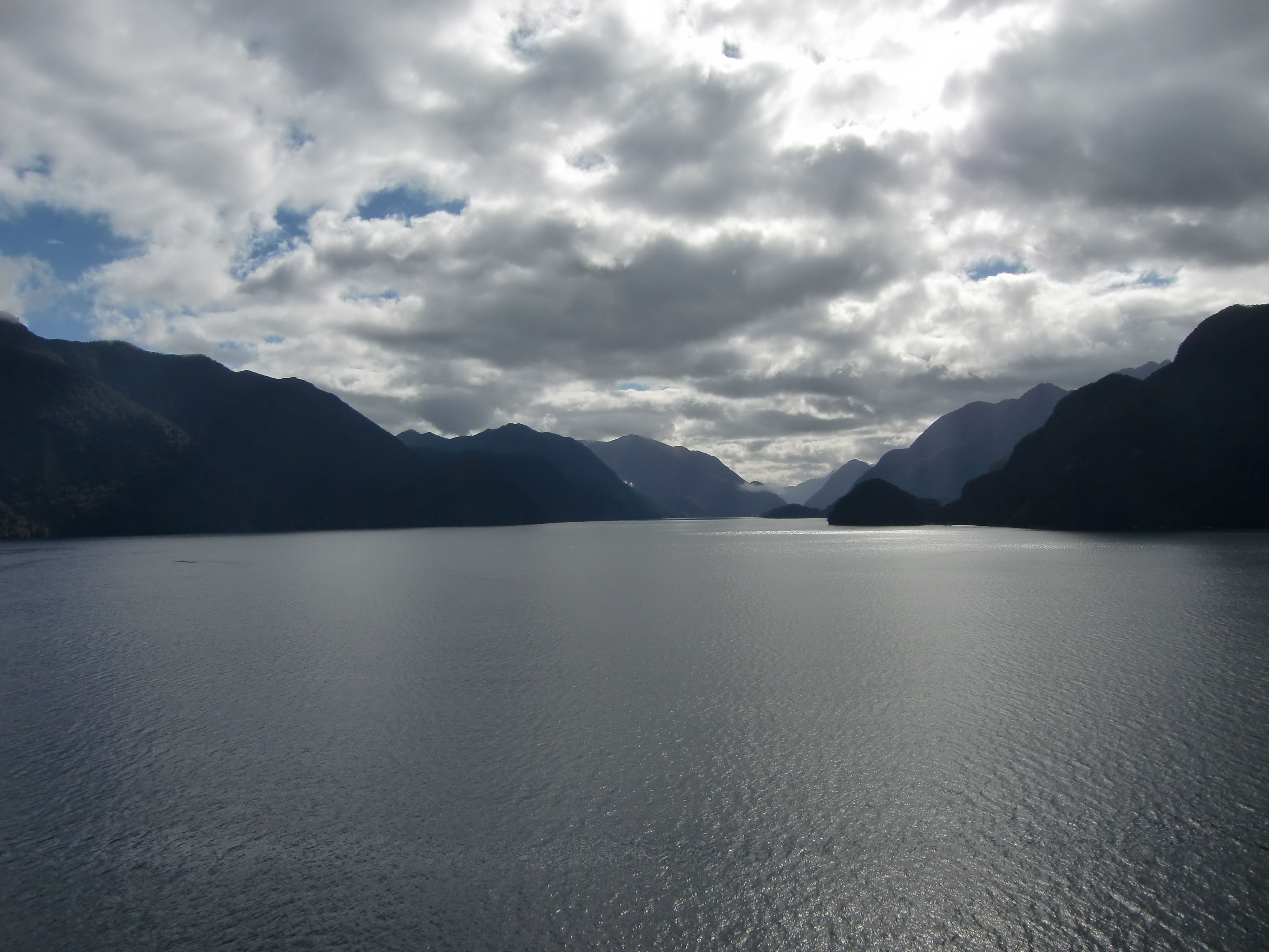 Dusky Sound - New Zealand - Seen from the deck of a cruising ship (Rhapsody of the Seas)